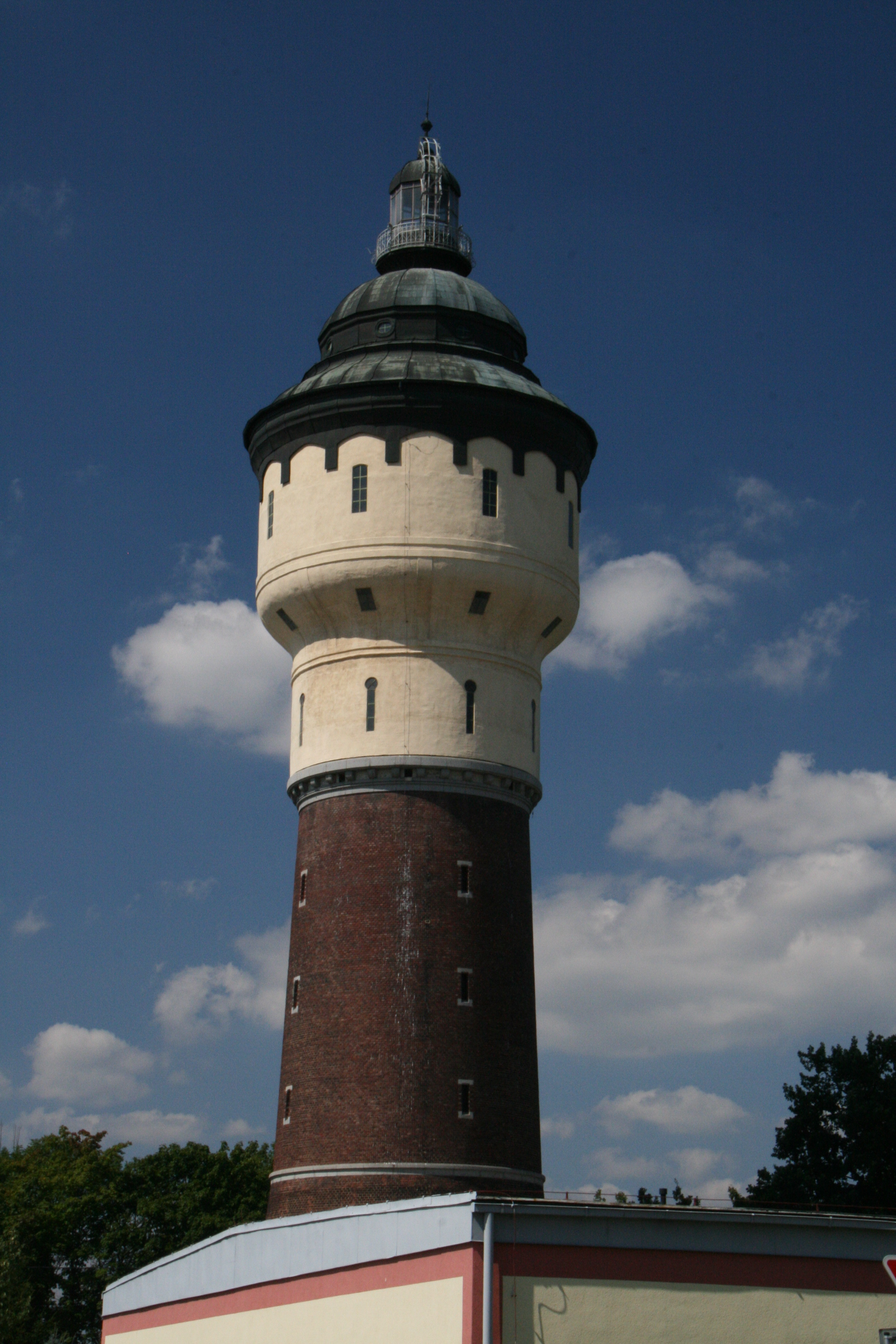 Water Tower in Pilsen